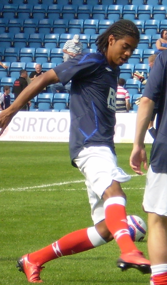 English footballer Jake Jervis of Birmingham City F.C. warms up at half-time during the pre-season friendly against Gillingham F.C. at the Priestfield Stadium